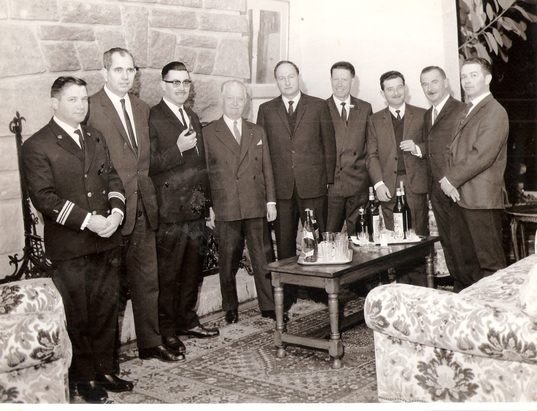 Shalechet crew in Cherbourg